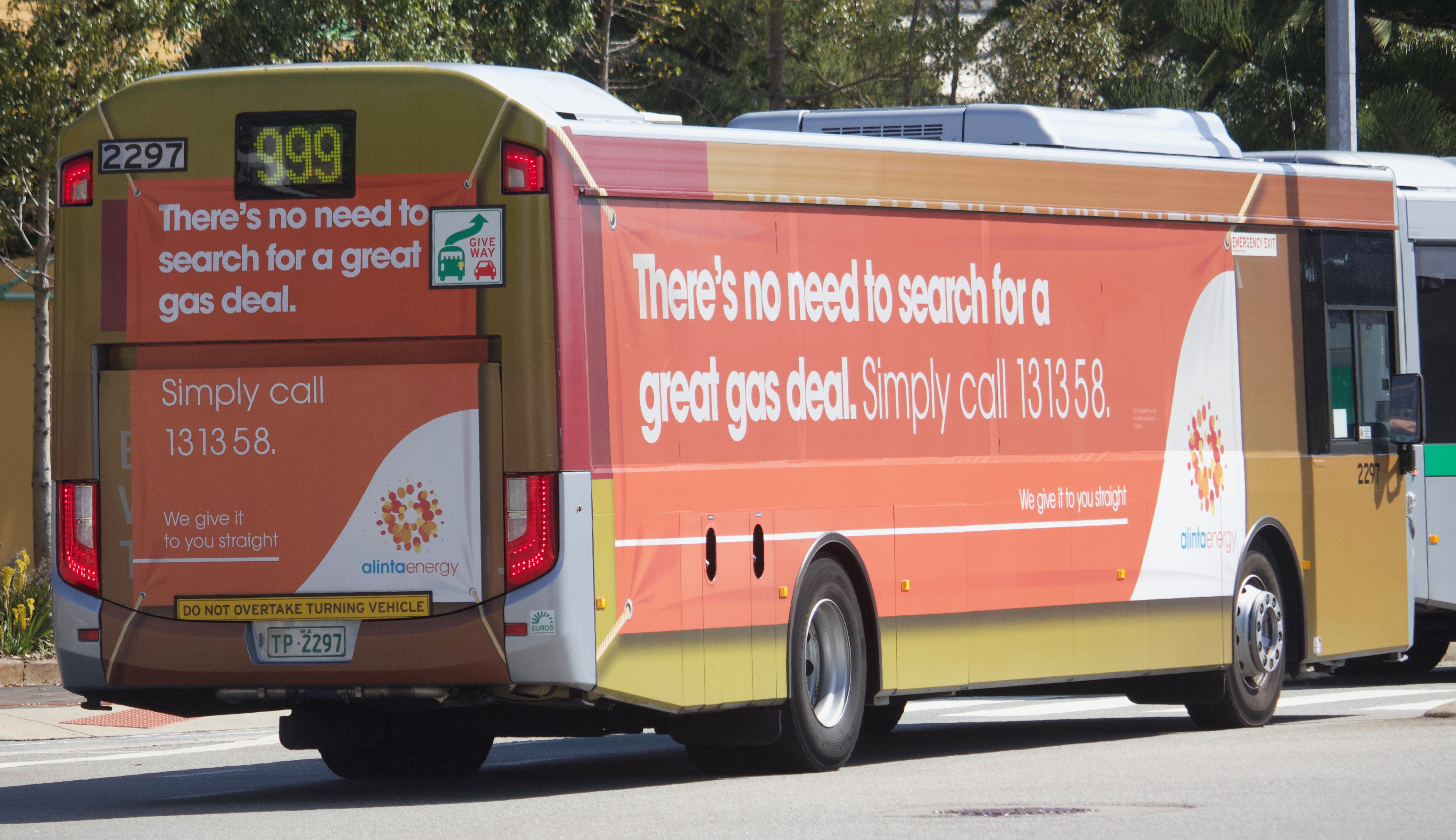 Volgren Optimus bodied Volvo B7RLE operating as a route 999. Wearing all-over advertising. I took this pic without advertising in July 2017